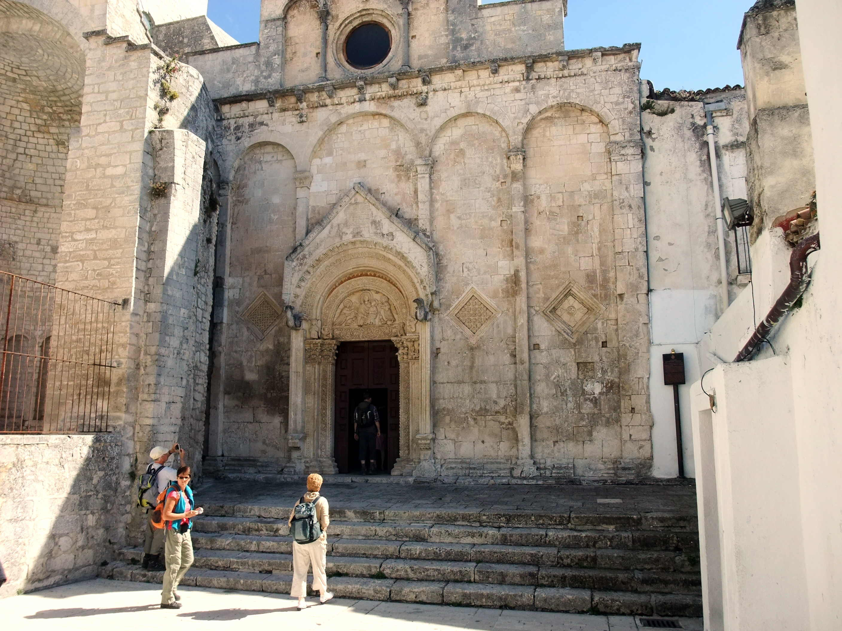 Church Santa Maria Maggiore in Monte Sant'Angelo in Apulia, southern Italy